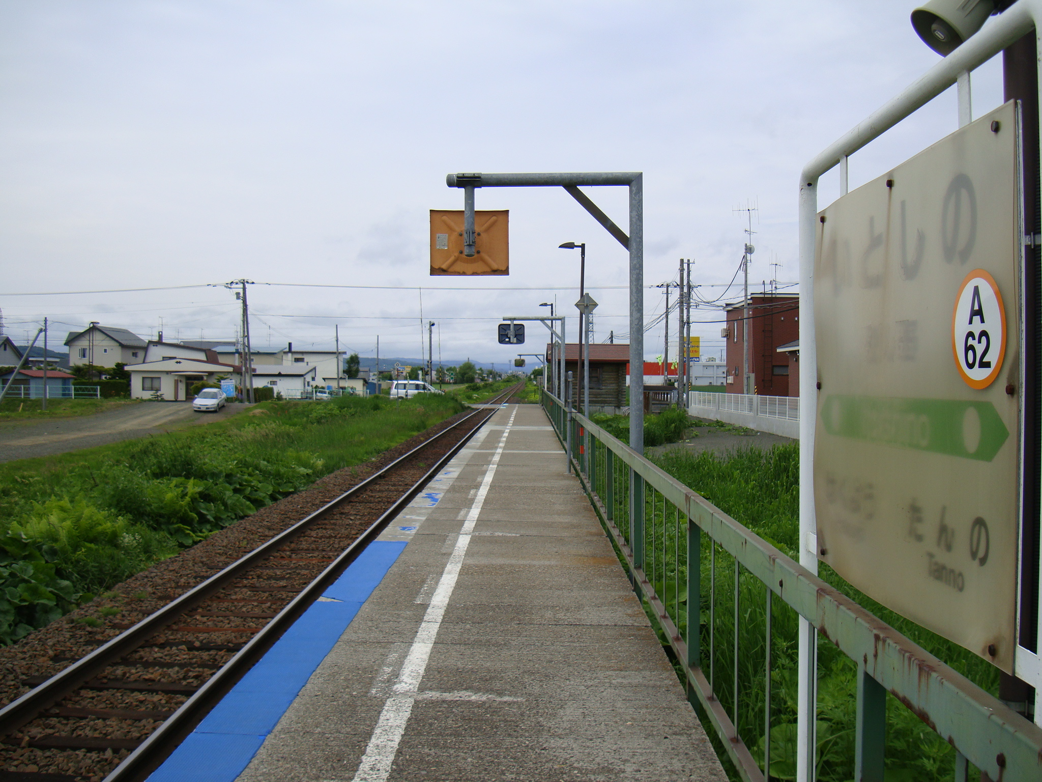 Itoshino Station